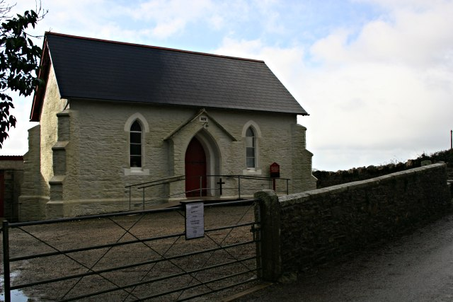 Bealbury Methodist Church This small chapel still has services every Sunday.